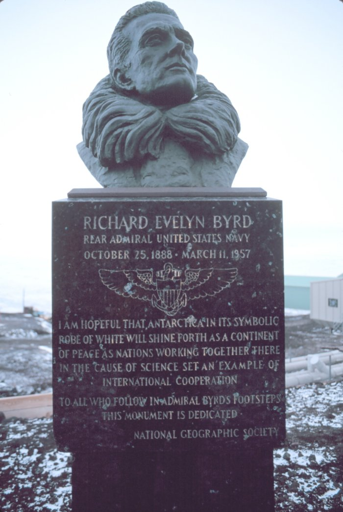 Bust of Rear Admiral Richard Evelyn Byrd at McMurdo Station.